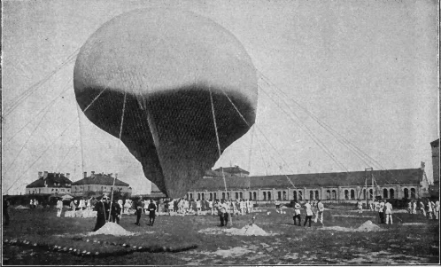 The Balloon “Preussen” (Prussia), half full of hydrogen gas, before its ascent to an altitude of 10,800 meters, July 31, 1901, Berlin-Tempelhof